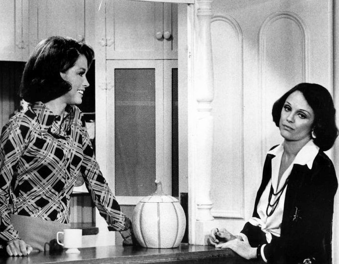 Publicity photo of Mary Tyler Moore and Valerie Harper from The Mary Tyler Moore Show.